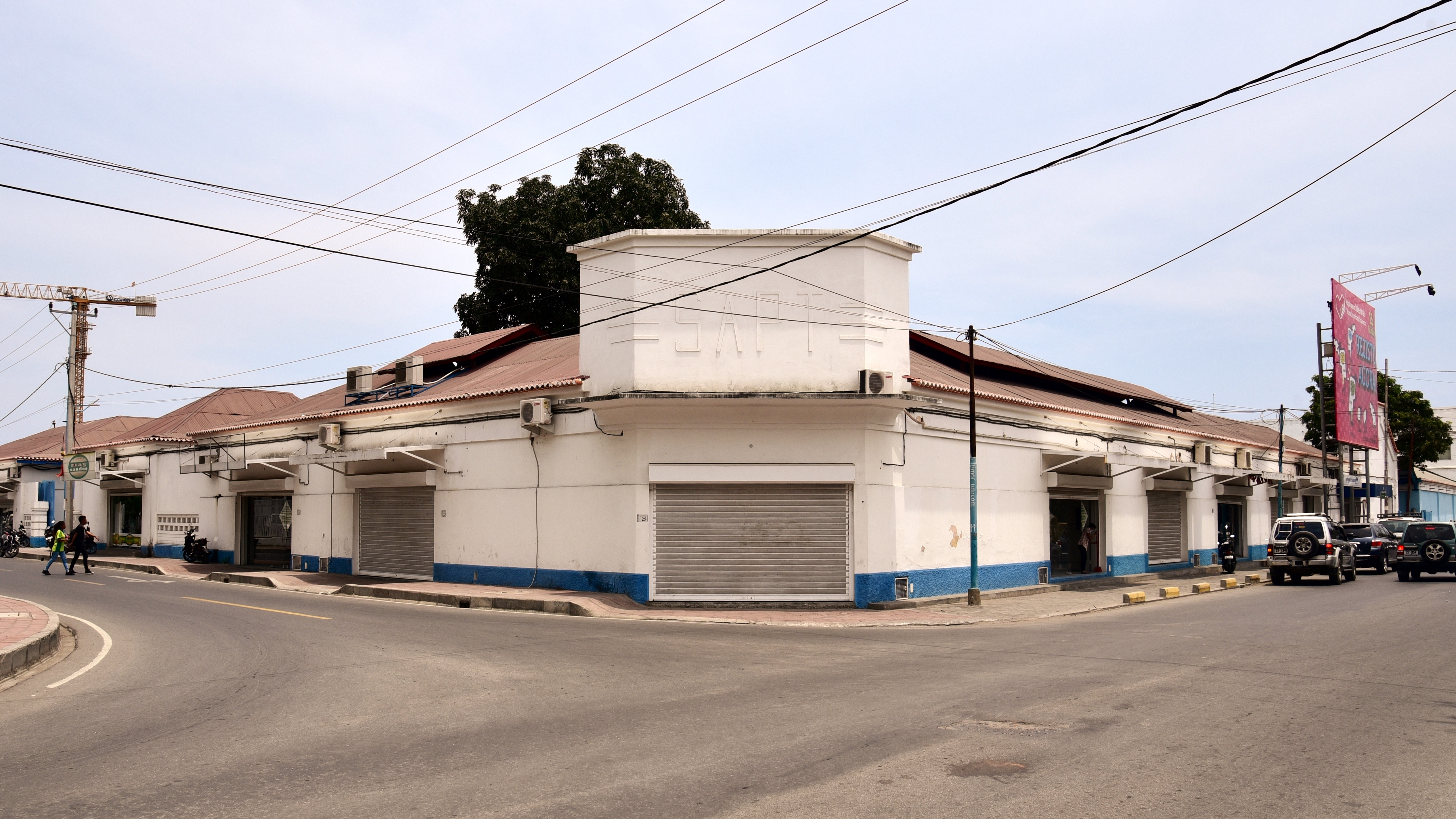 View of the SAPT building, formerly the headquarters of the Sociedade Agrícola Pátria e Trabalho, in Dili, East Timor